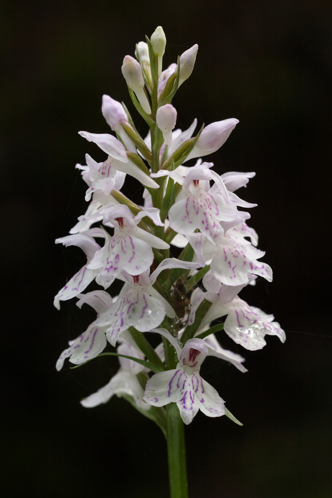 Spider hiding in inflorescence of Heath Spotted-orchid (Dactylorhiza maculata)